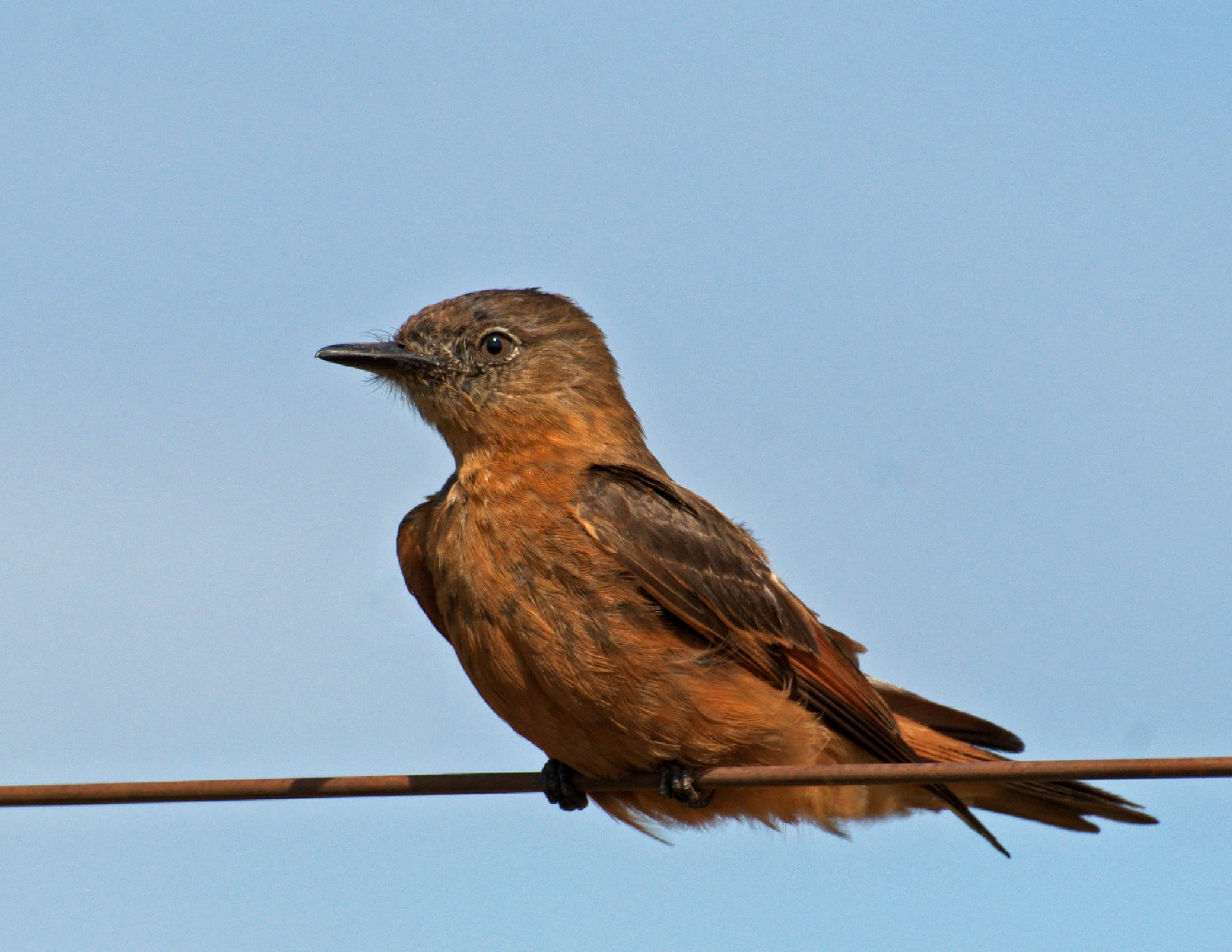 A Cliff Flycatcher in Fazenda Campo de Ouro, Piraju, Brazil.